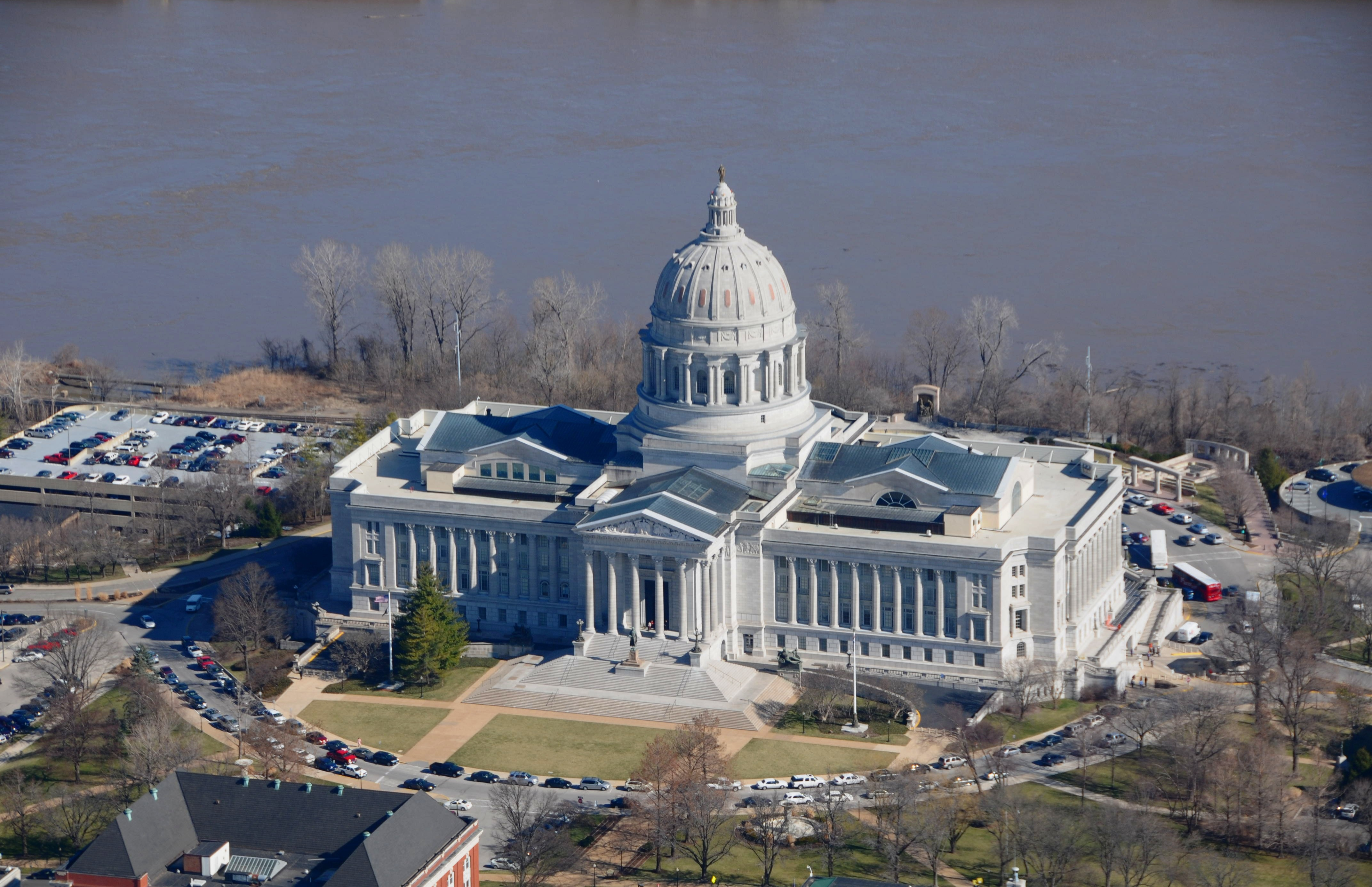 Aerial photograph of the Missouri State Capitol Building.